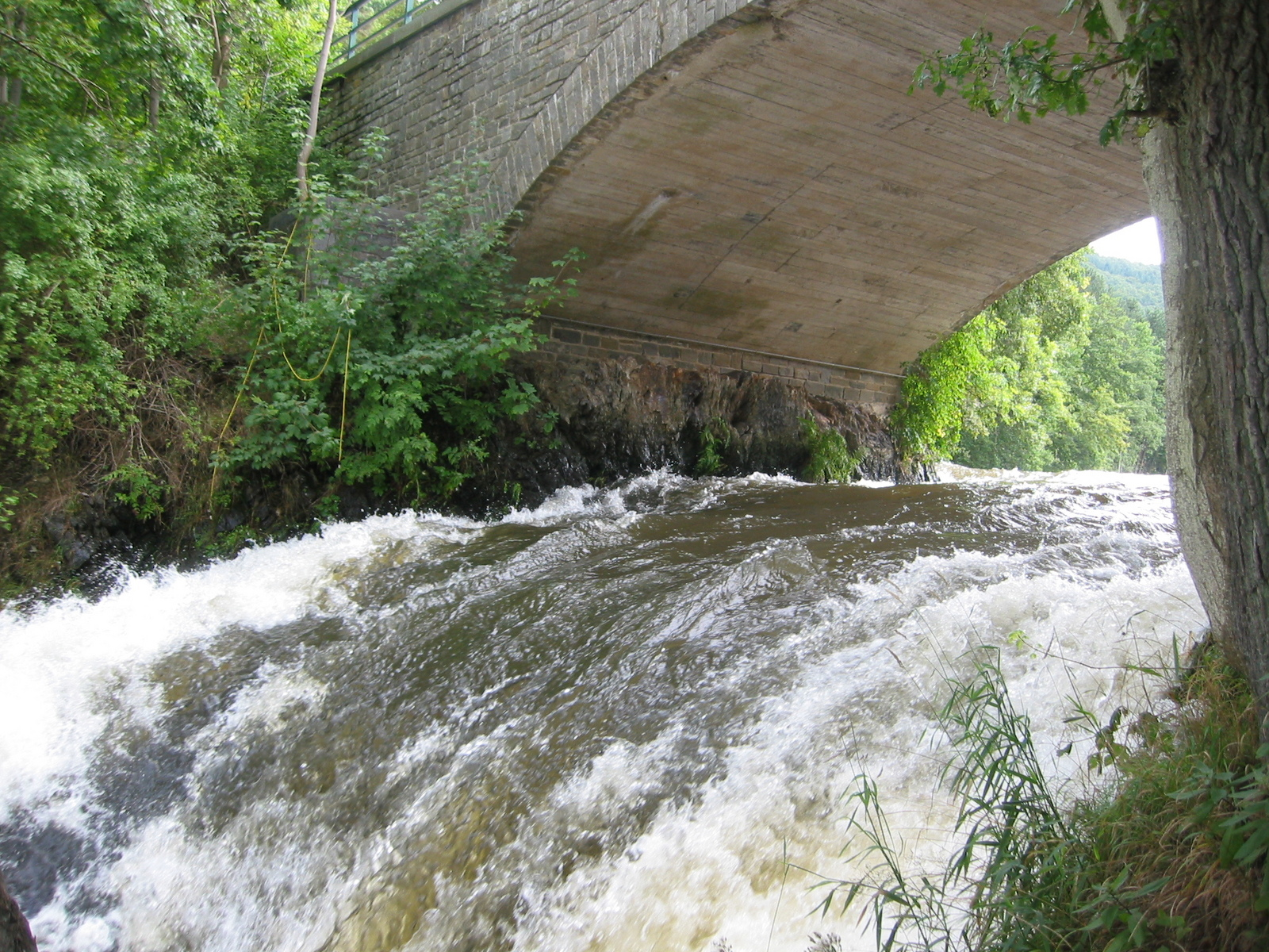 The main waterfall of the waterfalls of Coo